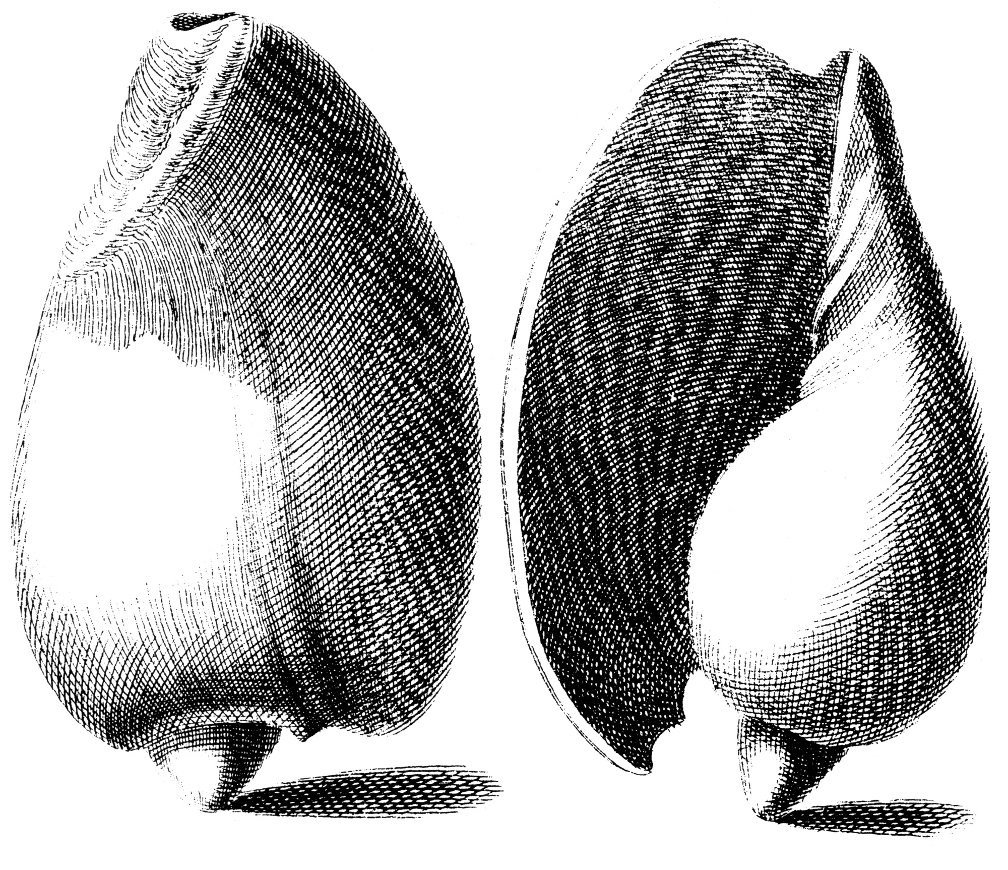 A drawing of Cymbium olla Linnaeus, 1758